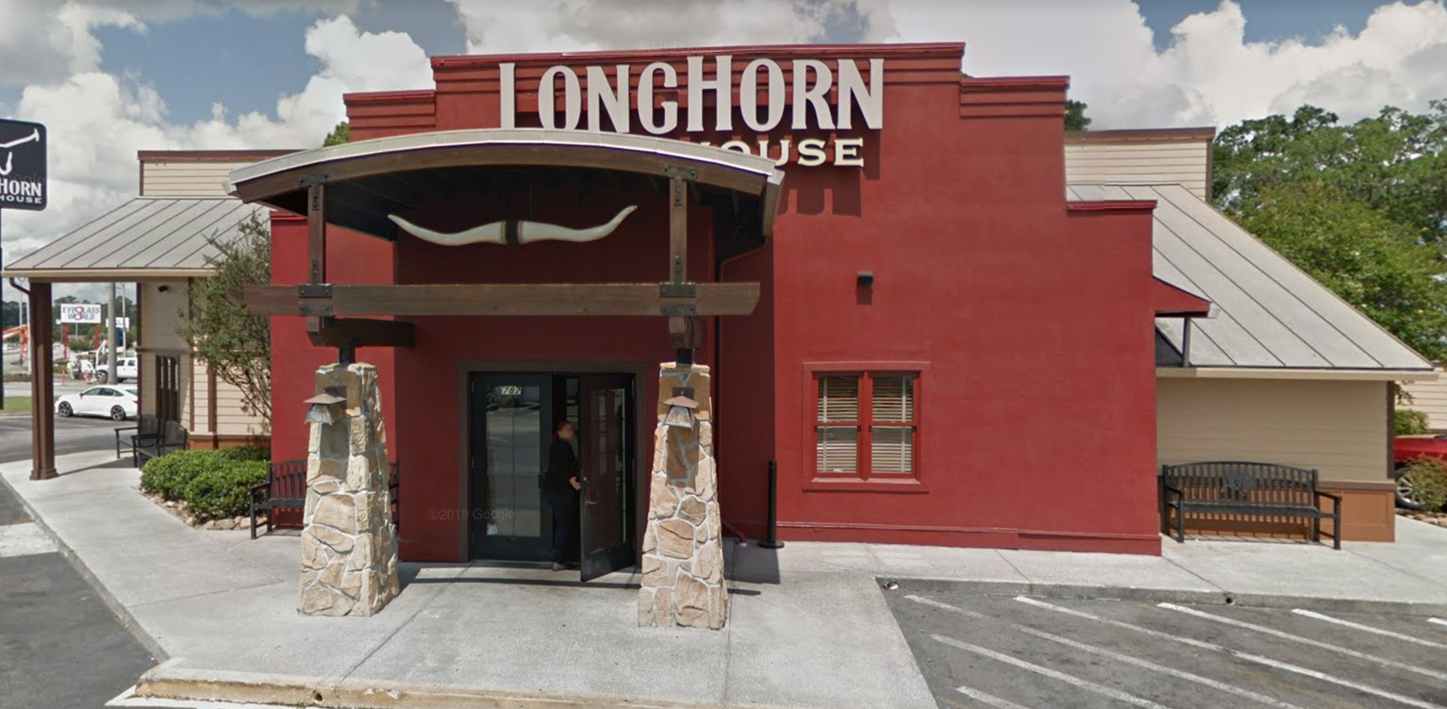 A LongHorn Steakhouse in Savannah, Georgia